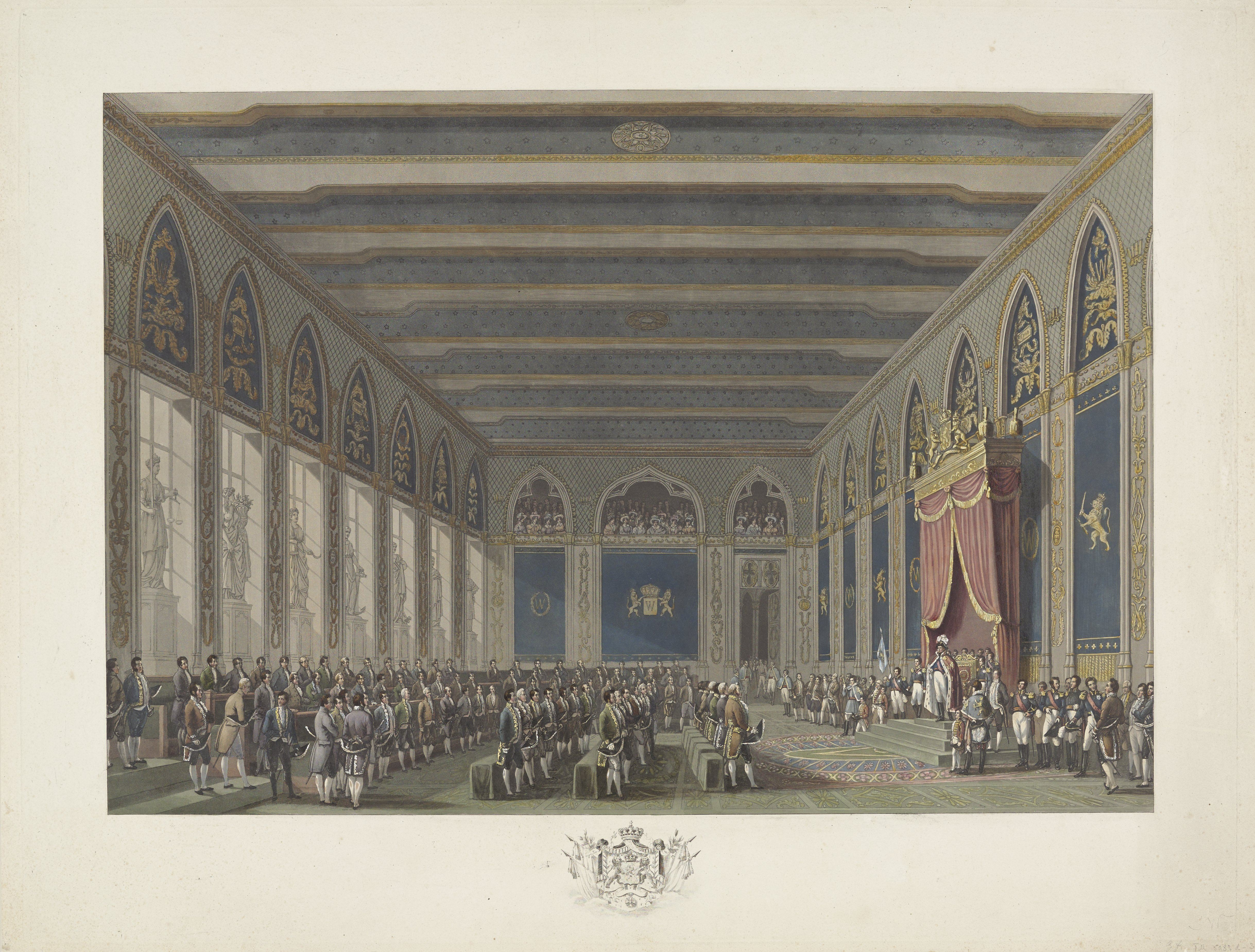 Entry of king William I of the Netherlands in Brussels on 21 september 1815. Aquatint and etching by Johann Nepomuk Gibèle after Denis-Sébastien Leroy